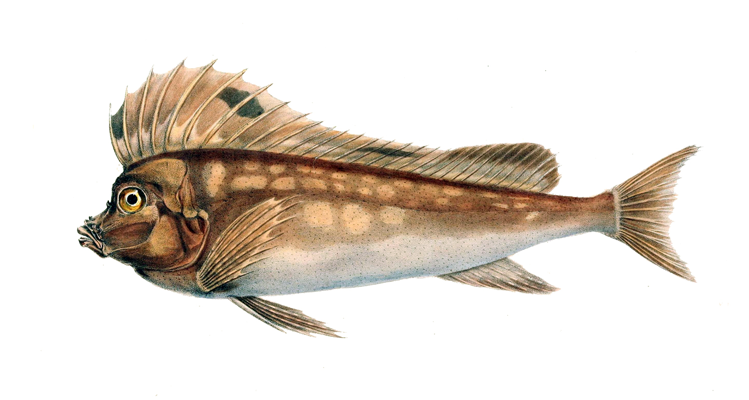 Congiopodus spinifer